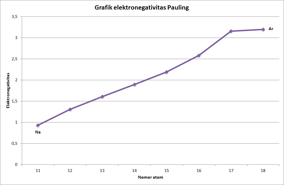 Graphical periodic trend of period 3 elements for electronegativity